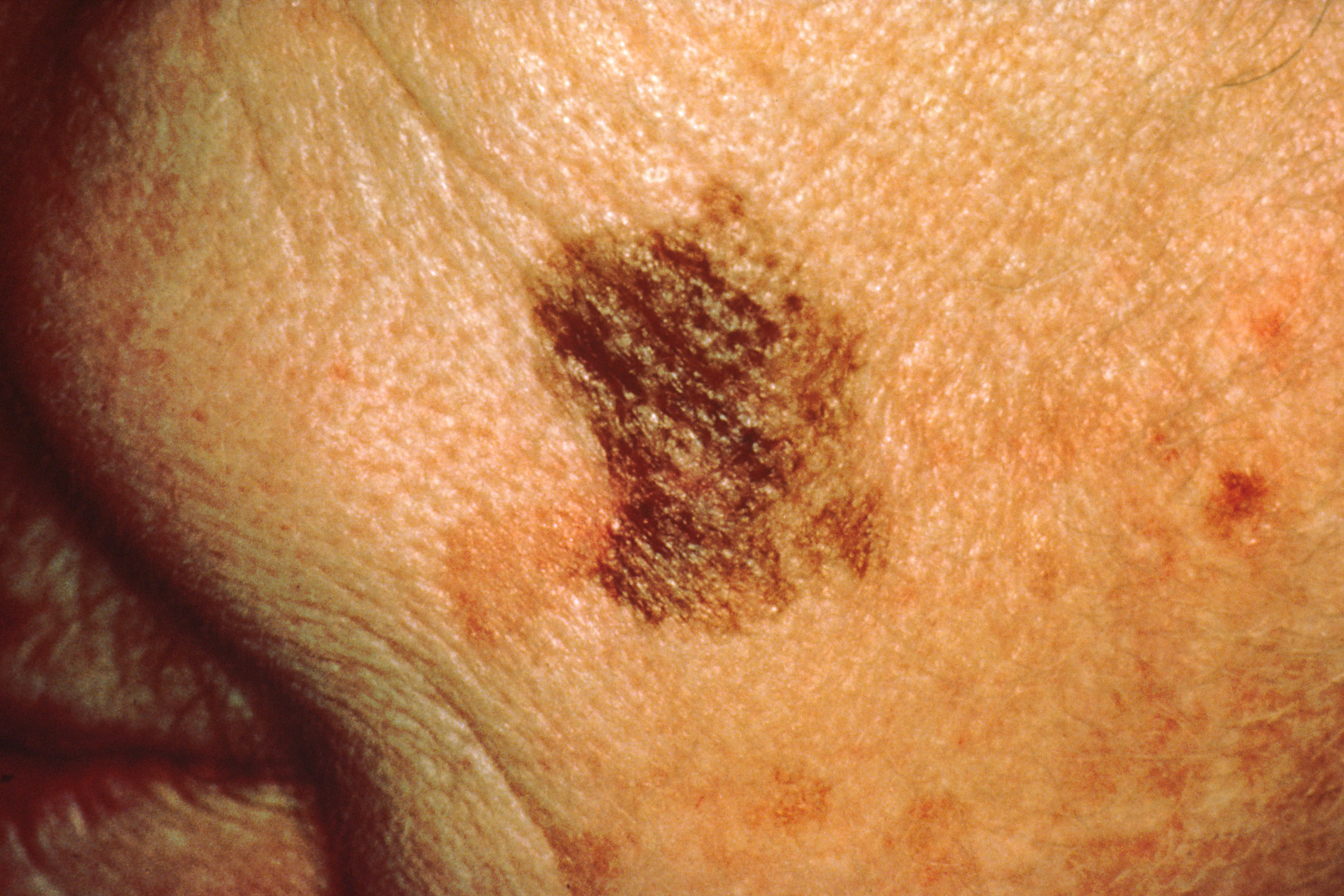 Title Melanoma with Diameter Change Description Seen is melanoma with the diameter that had changed in size. Part of the ABCDs for detection of melanoma. For additional resource, see the following web site: Topics/Categories Anatomy -- Skin Cancer Types -- Melanoma Cancer Types -- Skin Cancer Cells or Tissue -- Abnormal Cells or Tissue Type Color, Photo Source Skin Cancer Foundation